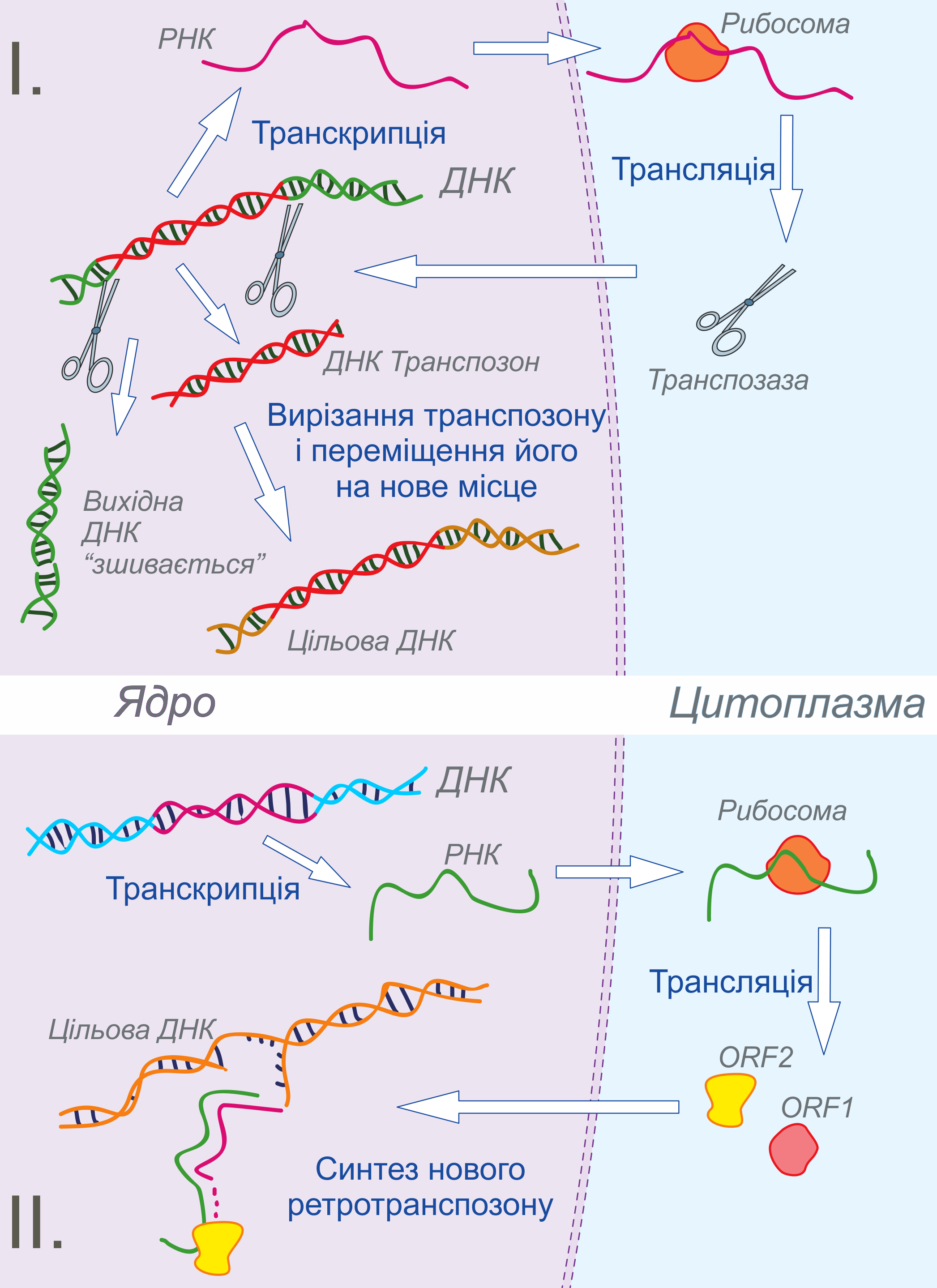 Transposition of genome mobile elements. I. DNA transposons. II. LINE-1 retrotransposons. Own work based on the illustration from Siomi MC, Sato K, Pezic D, Aravin A a. PIWI-interacting small RNAs: the vanguard of genome defence. Nat. Rev. Mol. Cell Biol. Nature Publishing Group; 2011 Apr ;12(4):246–58. Available from: PMID: 21427766